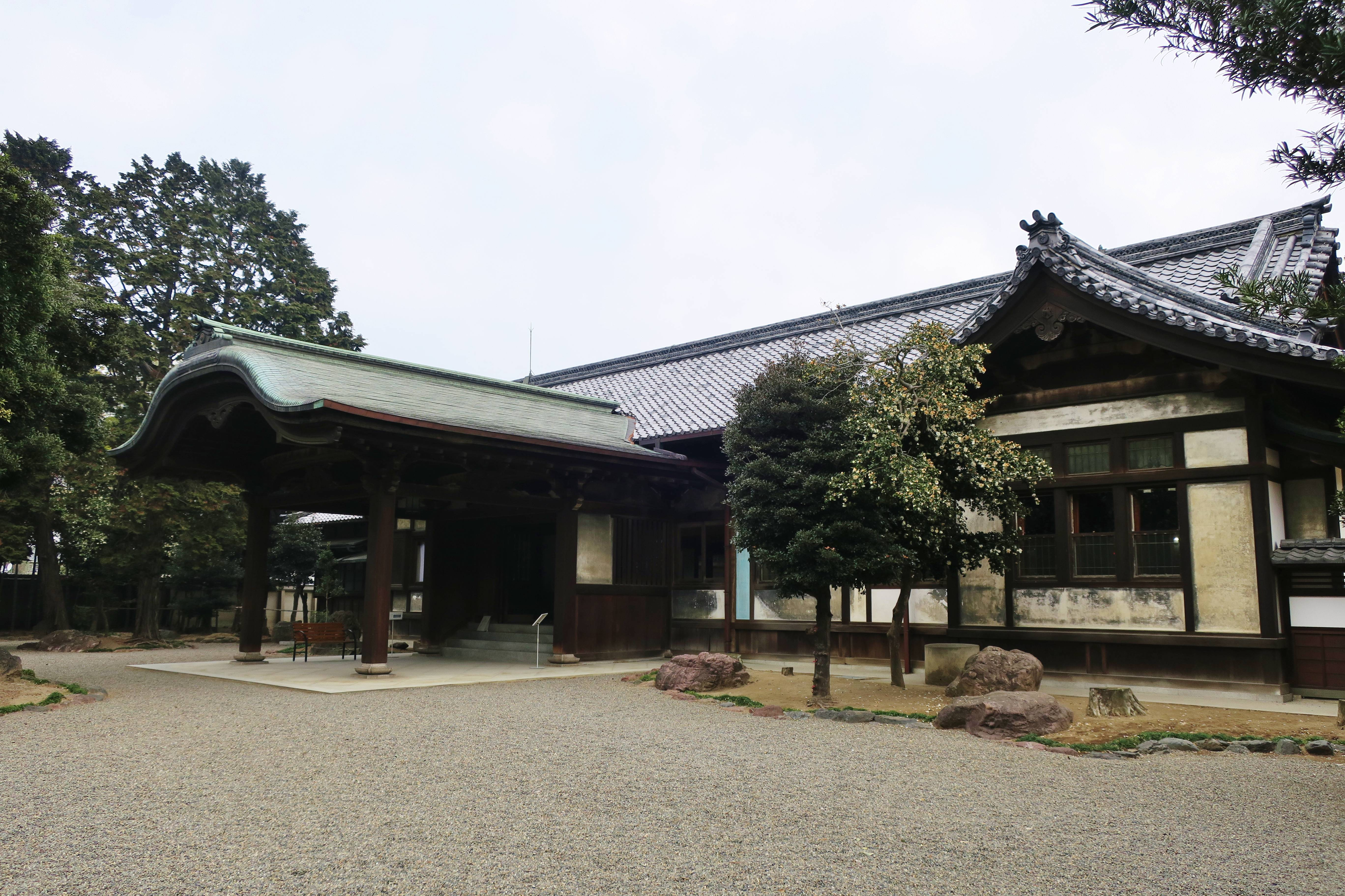 Former Nakajima Residence (Ōta, Gunma).